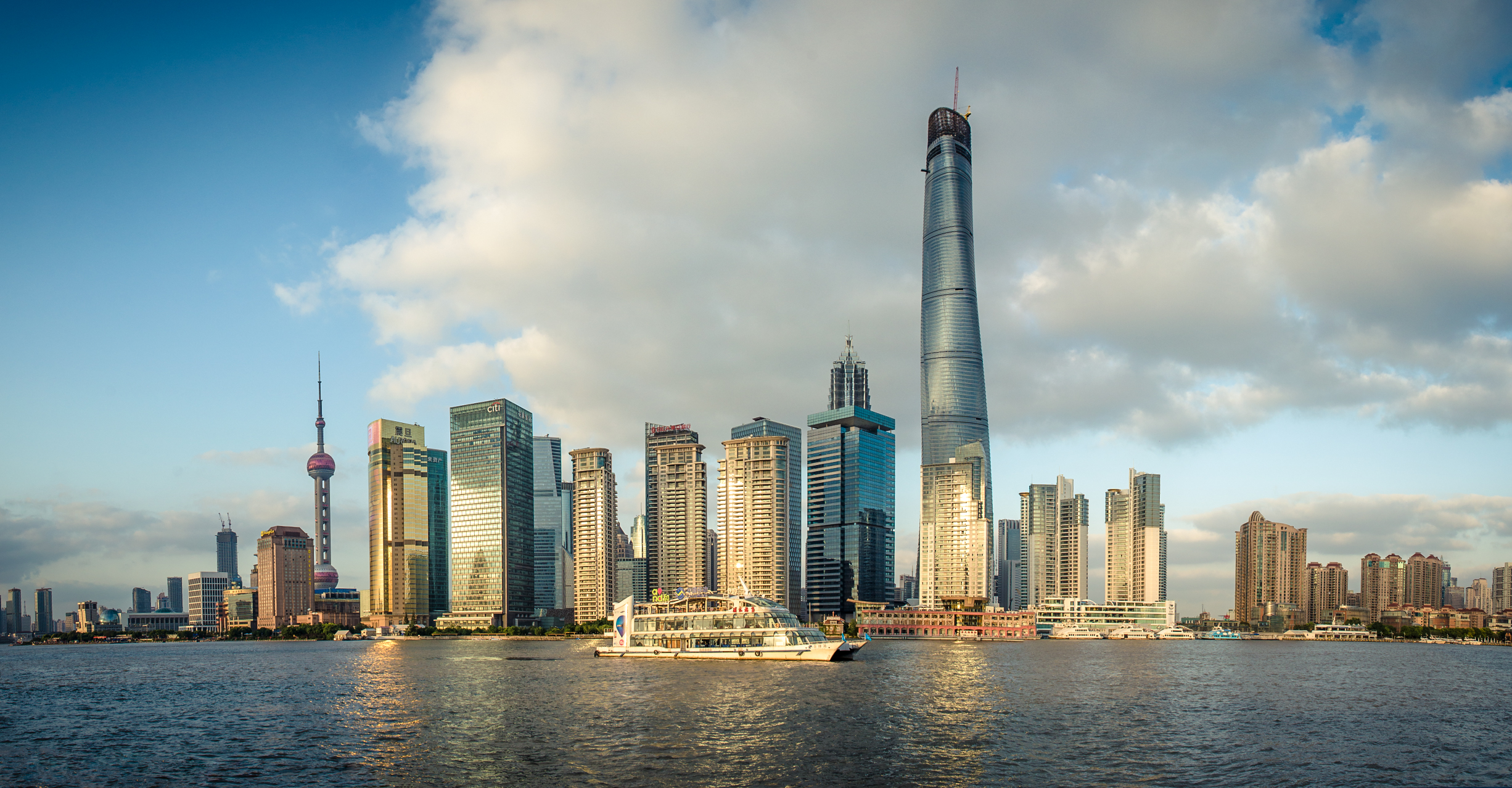 Tarde en Shanghai — at The Bund 外滩.